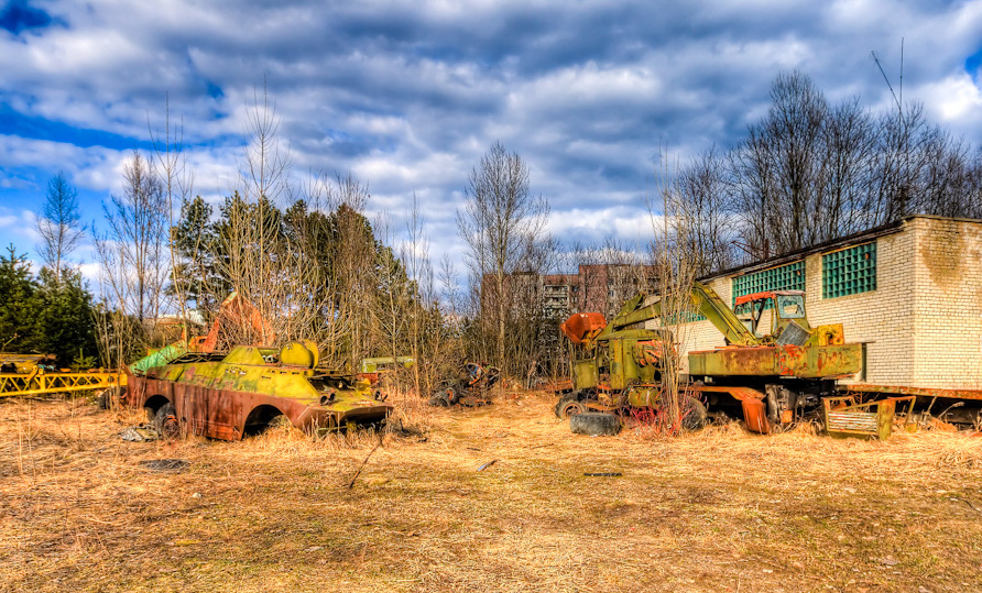 BRDM-2D armoured scout car and an excavator at the militia/police station in Pripyat near Chernobyl.